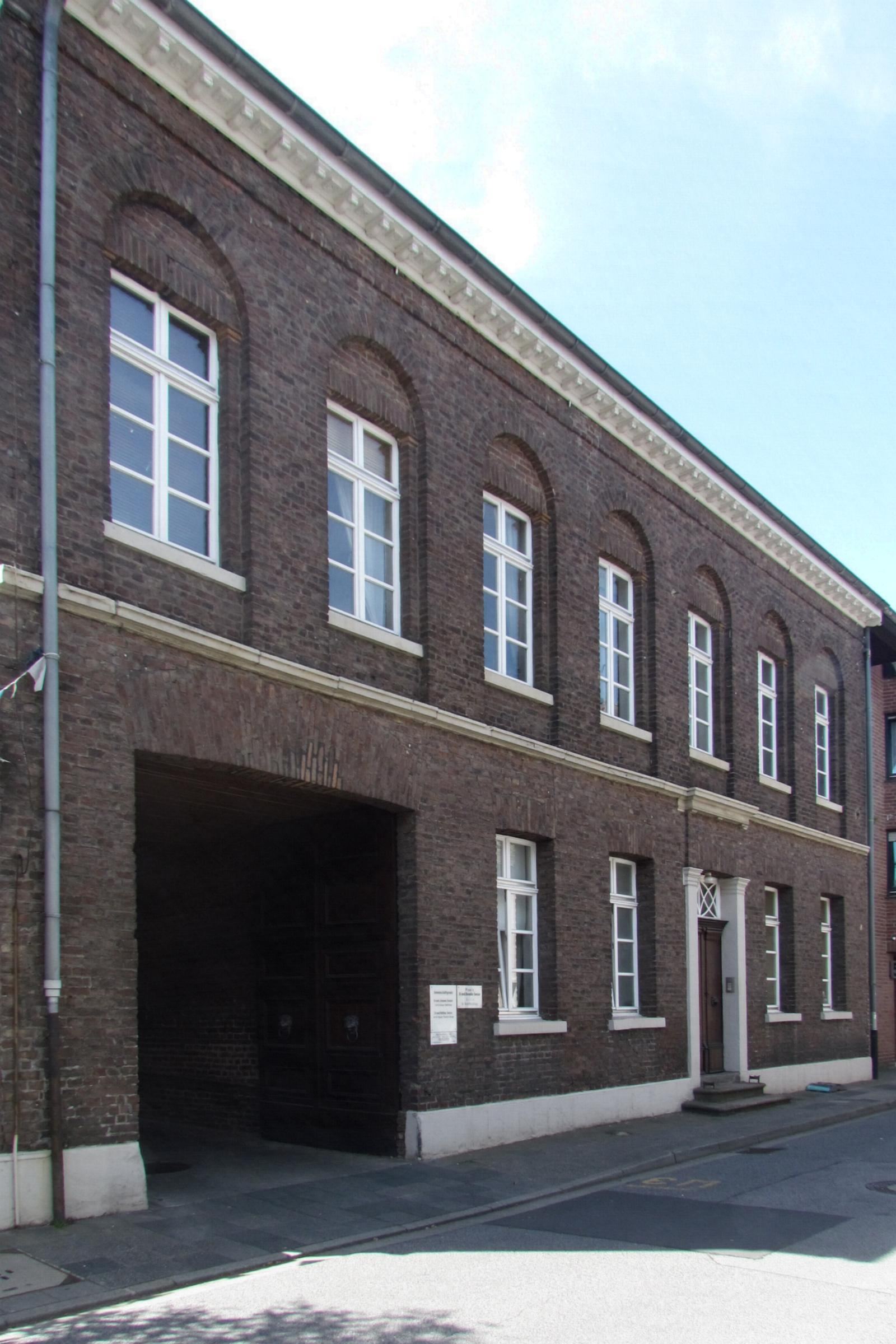 This is a photograph of an architectural monument.It is on the list of cultural monuments of Korschenbroich